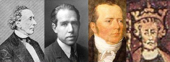 This picture was created and uploaded by Witch-king of Angmar. It shows some of the most famous Danes. Removed from the following pages: Danish people --OrphanBot 08:34, 4 September 2007 (UTC) sources: Image:Hans_Christian_Andersen.jpg Image:Niels_Bohr.jpg Image:Cnut13.jpg Image:Ørsted.jpg This image originally contained eight images. I've removed the bottom row comprising the four images listed below, since two of these images had outstanding copyright issues. The images in question depicted Mads Mikkelsen and Saxo. List of removed images: Image:Kierkegaard.jpg Image:Tycho_Brahe.JPG Image:Mads_Mikkelsen_and_fans_3_crop.jpg Image:Saxo_horn_old.jpg Valentinian T / C 22:38, 9 September 2007 (UTC)